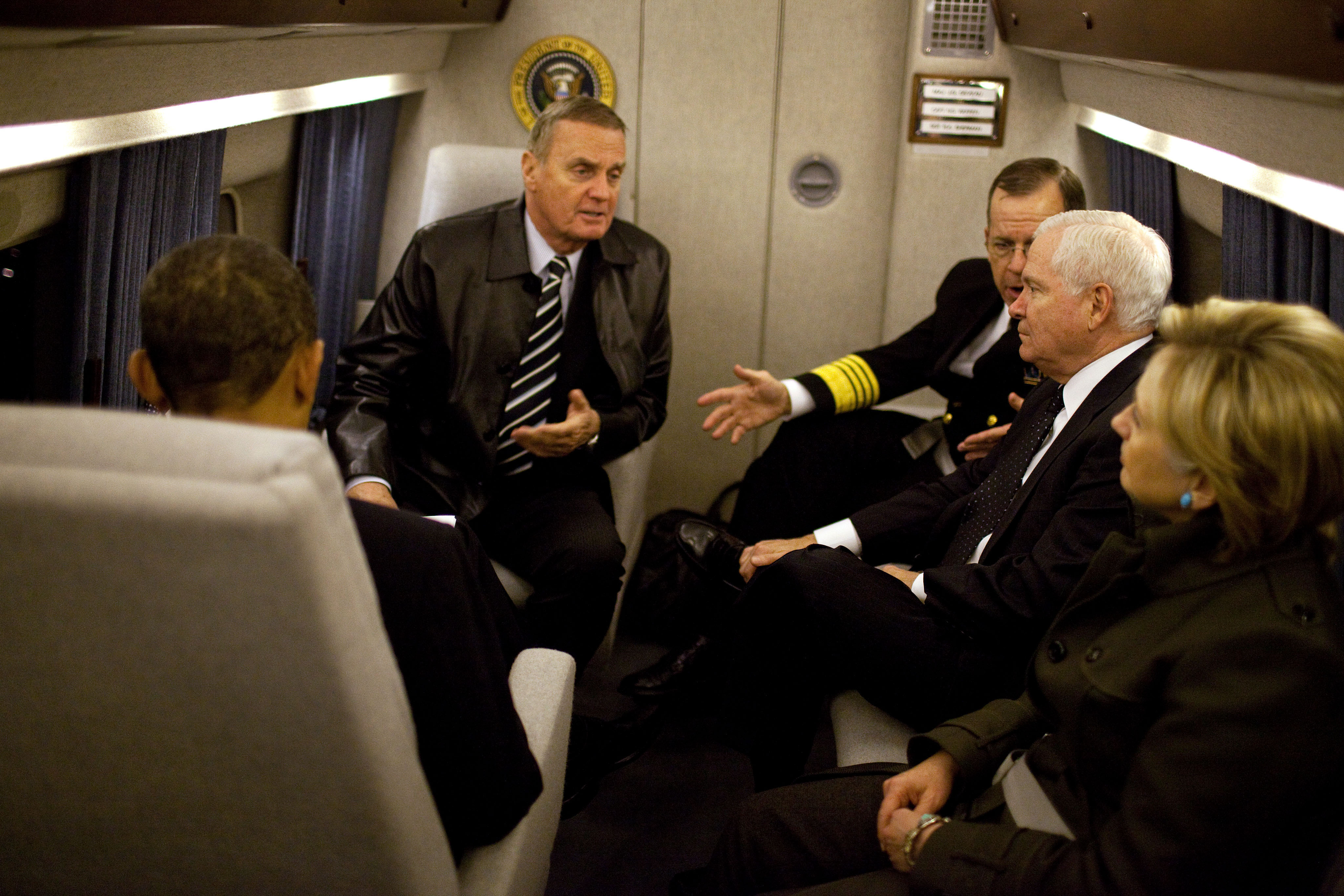 As President Barack Obama reads over his speech, his national security team confer aboard Marine One en route from the White House to Andrews Air Force Base. From left, NSC Advisor Gen. James Jones, Admiral Michael Mullen, chairman of the Joint Chiefs of Staff, Defense Secretary Robert Gates, and Secretary of State Hillary Rodham Clinton. The President traveled to the U.S. Military Academy at West Point in West Point, N.Y., where he delivered a speech on his new Afghanistan policy Dec. 1, 2009.